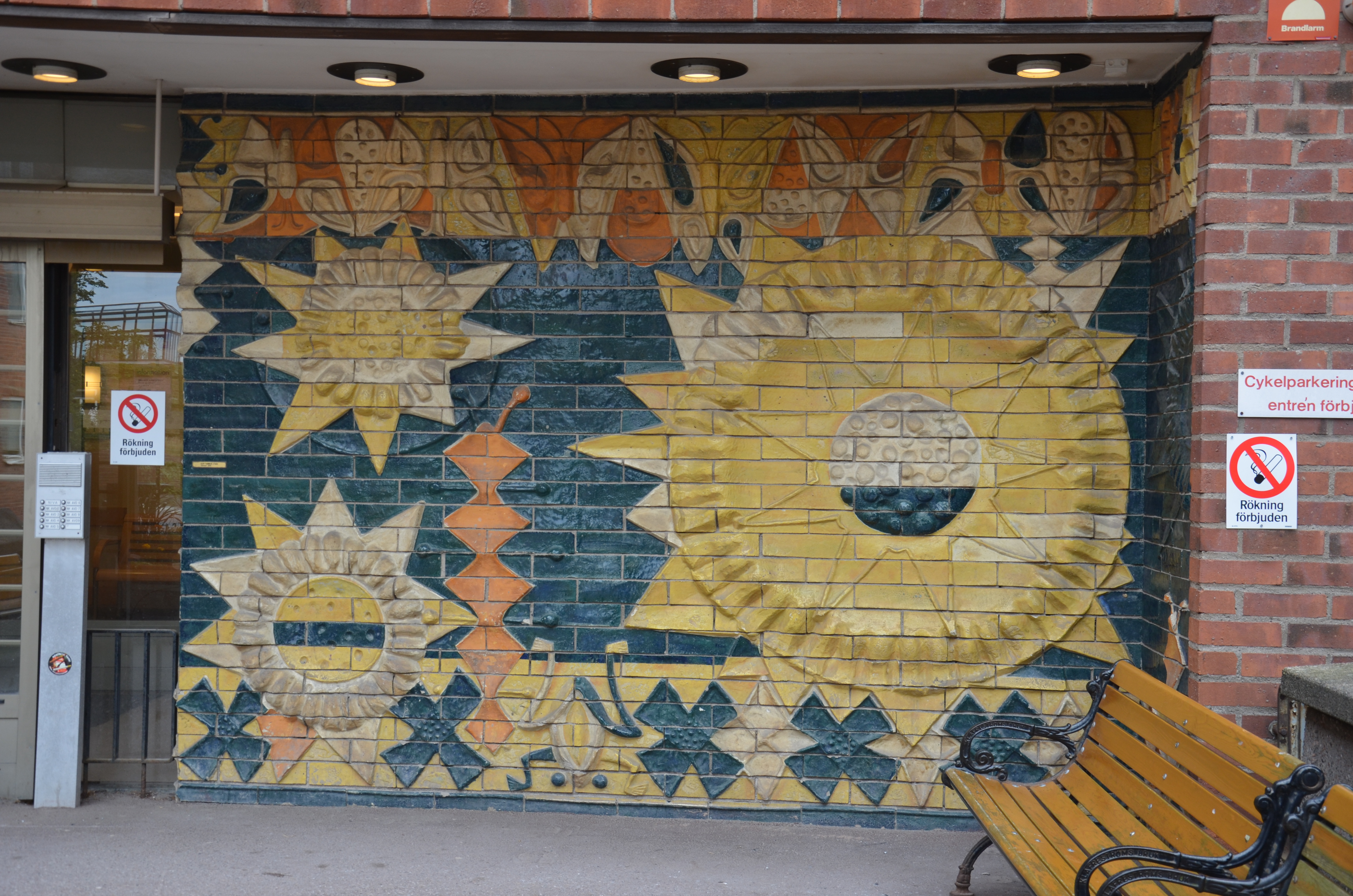 Curt Thorsjö's Solrosor, 1963, Karolinska Universitetssjukhuset, Solna (entré Neurologi, hus R1)